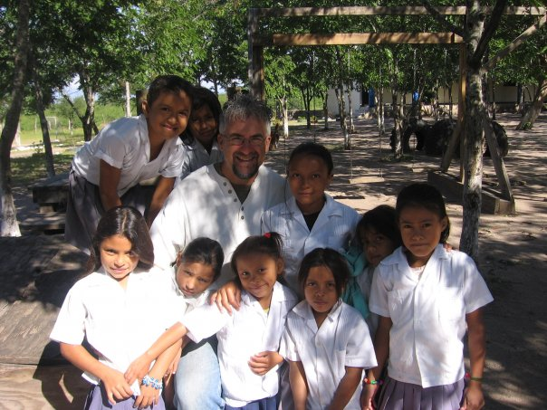 Jerome Cabeen with boarding school student at Nuestra Senora de Guadalupe in El Conejo, Honduras (Comayagua) in August, 2006